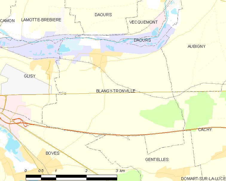 Map of French municipality Blangy-Tronville